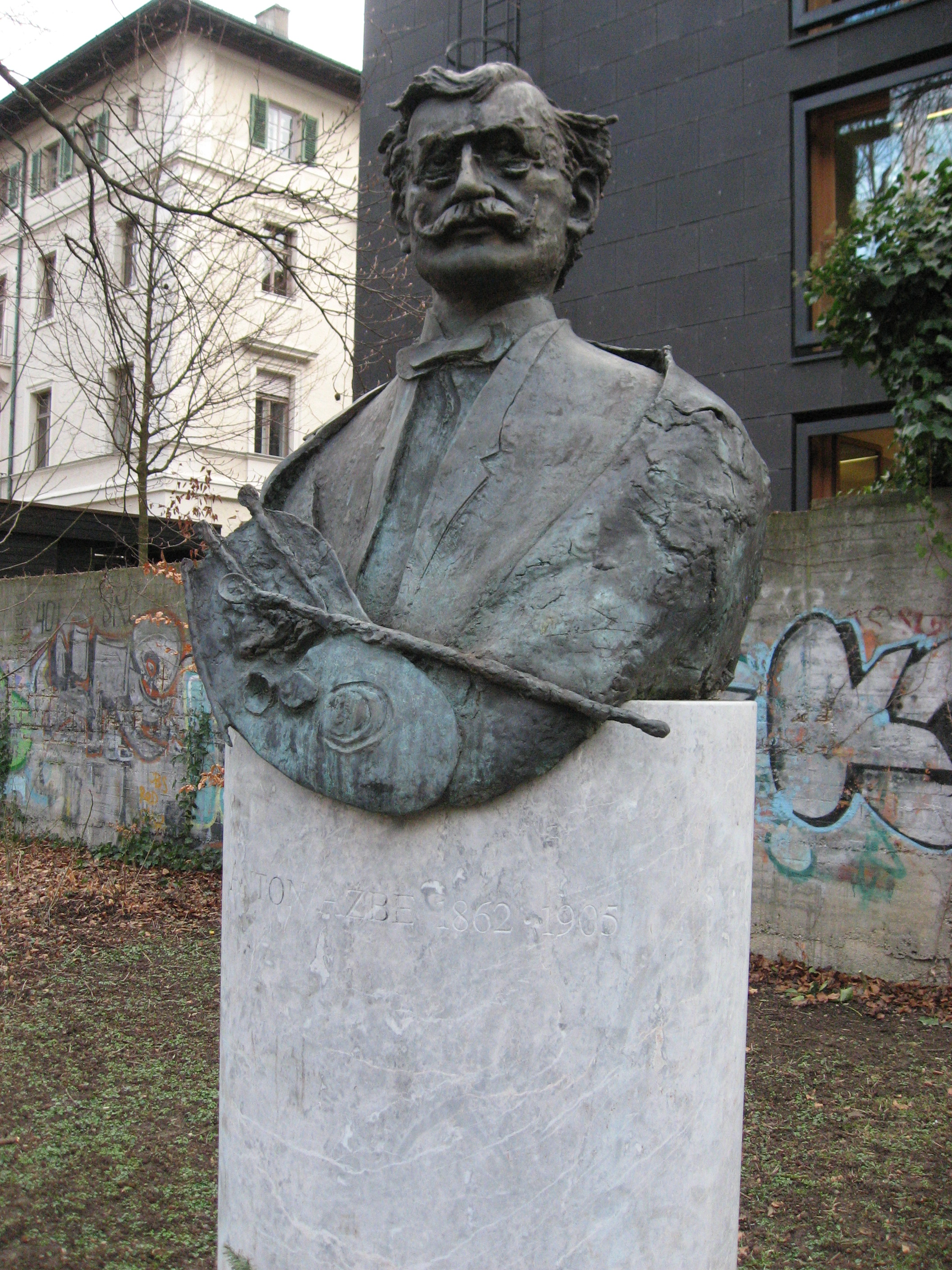 Bust of the painter Anton Ažbe in Leopoldpark, Munich